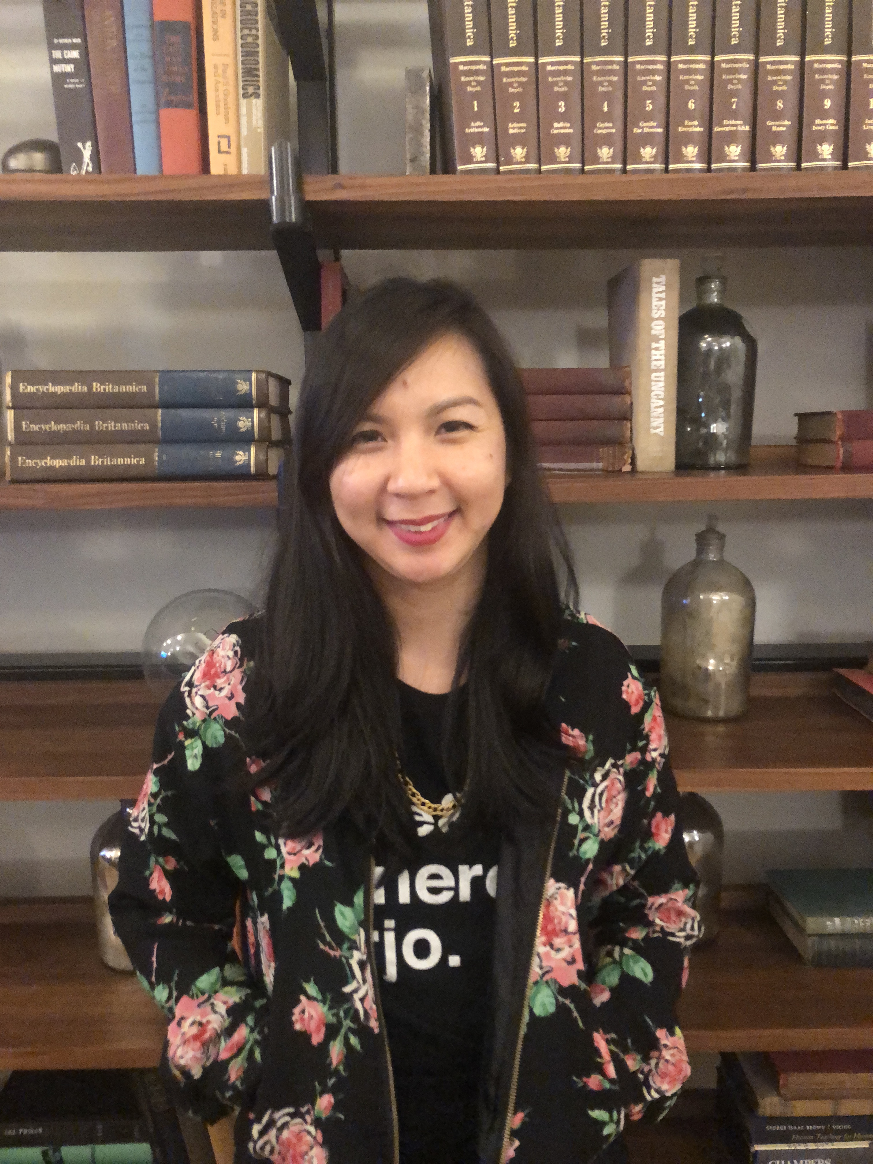 This is a photo of the writer at an Edit-a-Thon at The Ace Hotel New York in May 2019.